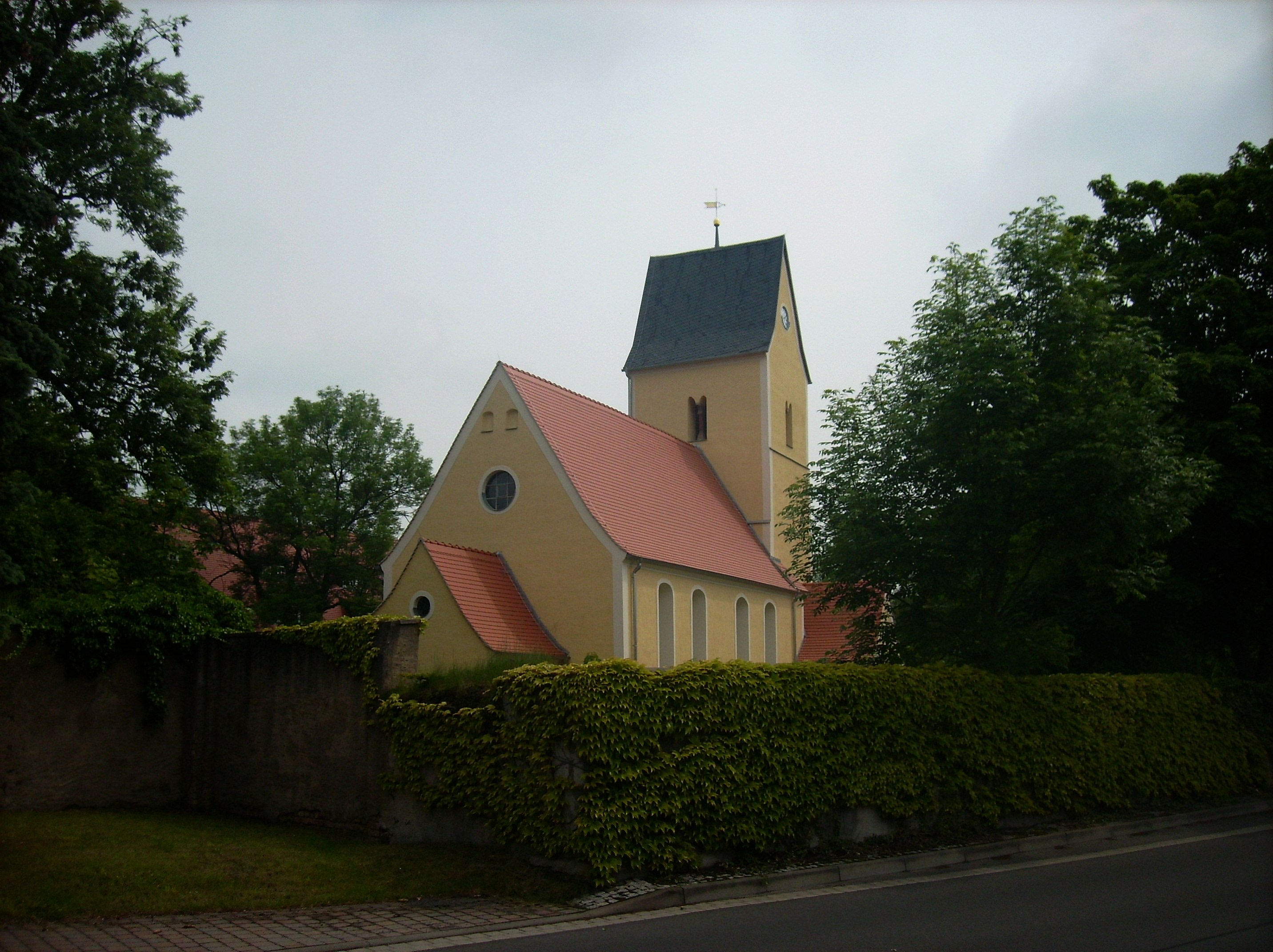 Church of the village of Ammelshain (Naunhof, Leipzig district, Saxony)